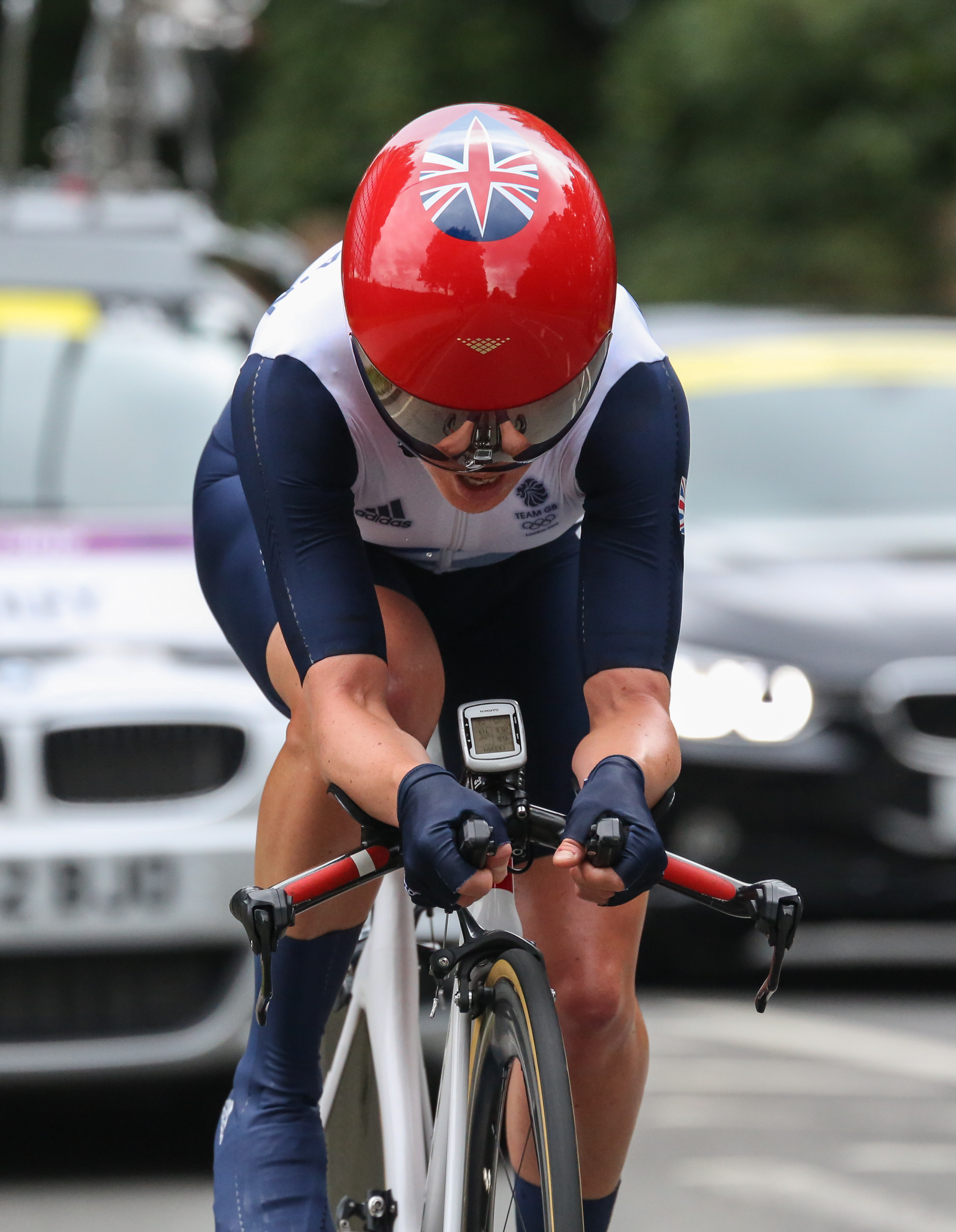 Emma Pooley competing in the London 2012 Women's Olympic Time Trial.